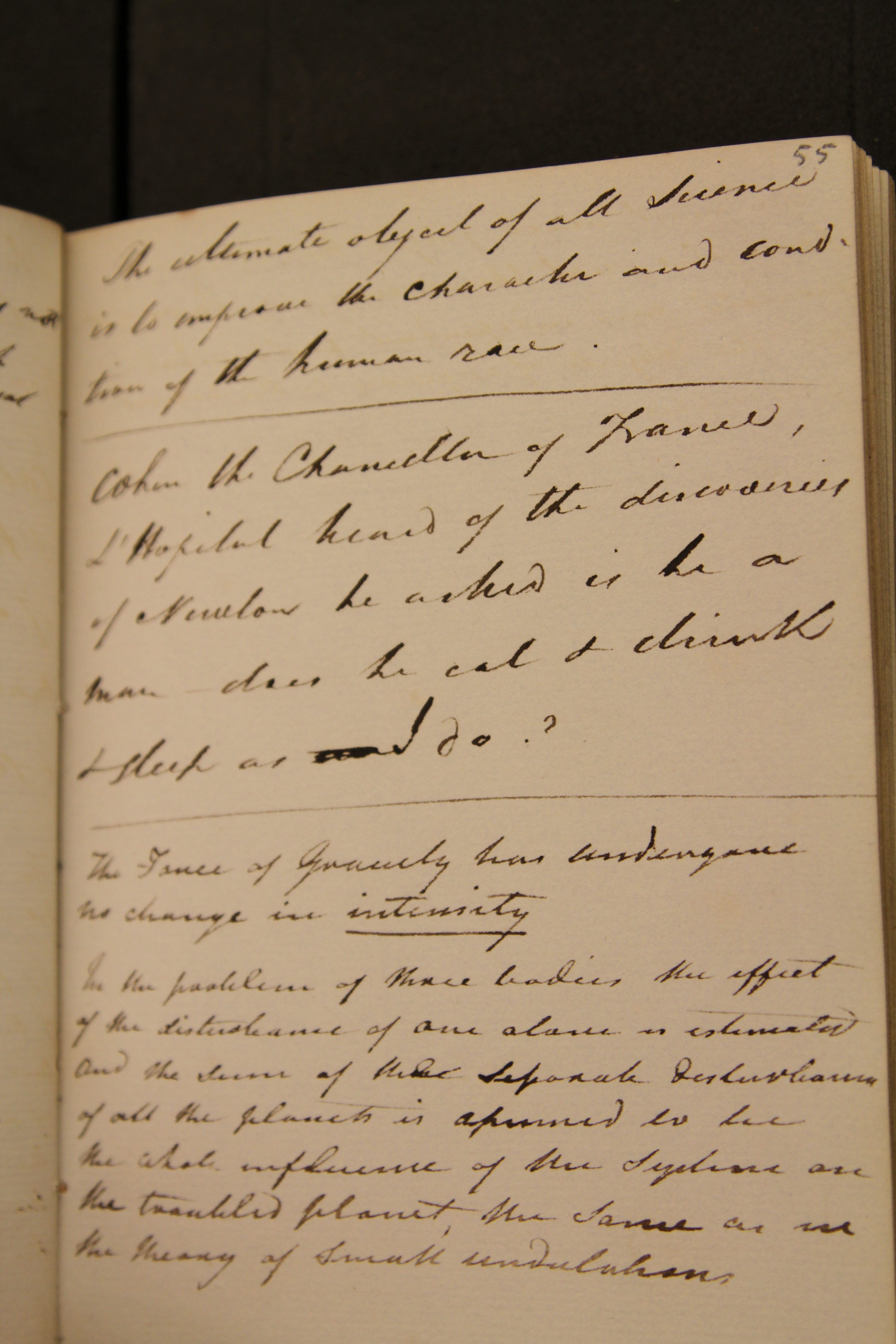 Page from a notebook of Mary Somerville."The ultimate object of all science is to improve the character and condition of the human race." From a collection of documents shelfmarked Dep. c. 352.